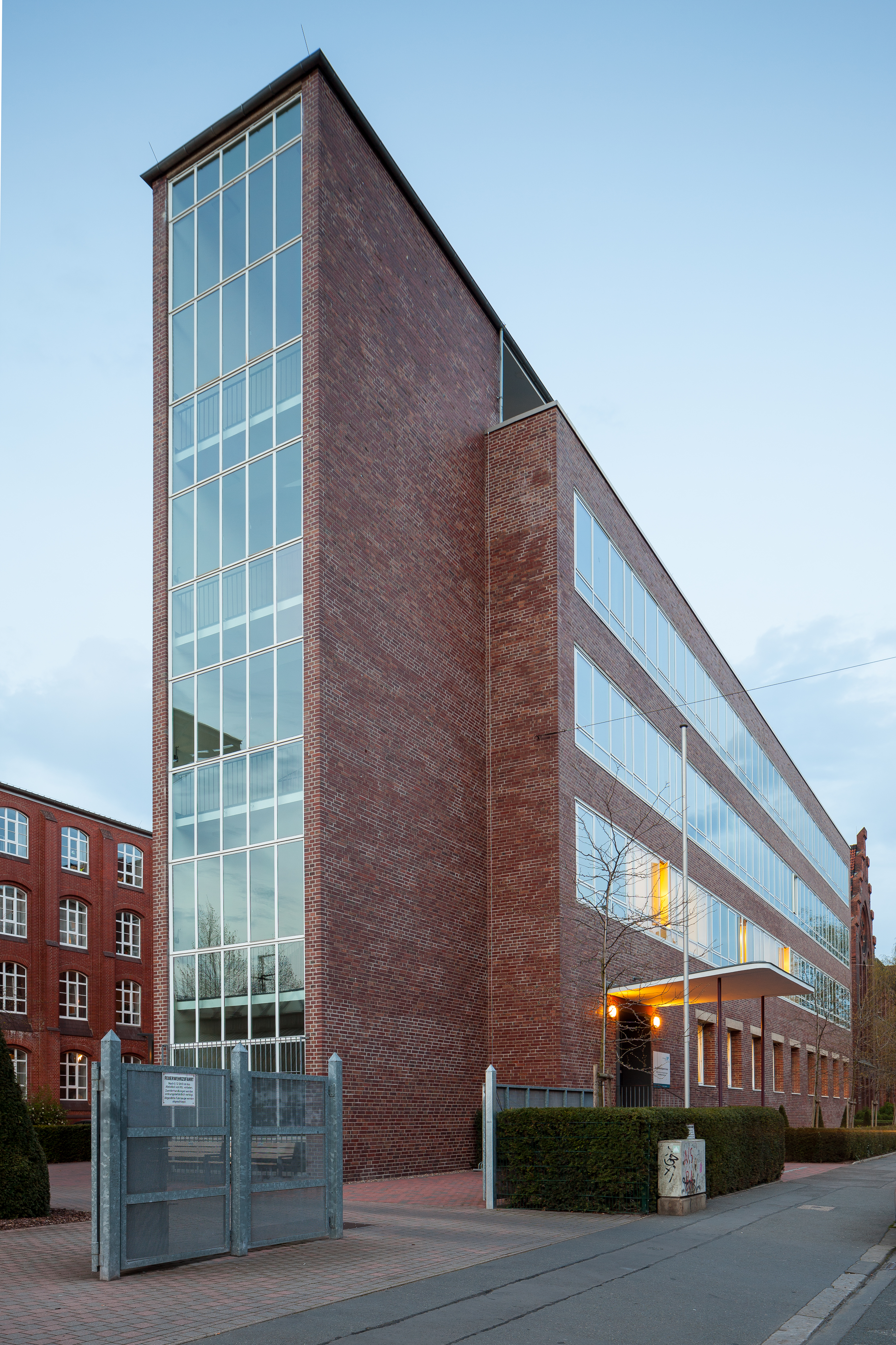 Office building of former "Edler and Krische" company located at Kestnerstrasse in Suedstadt district, Hanover, Germany. I gratefully acknowledge Philip Zerner for providing his camera.